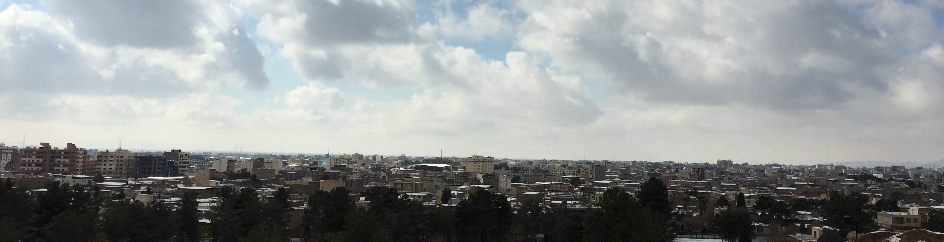 Kerman skyline as seen from Ghaleh Dokhtar(ancient Daughter castel) located in the east of the city.